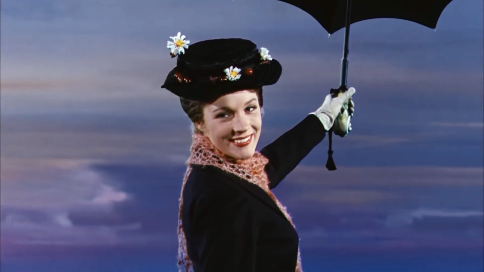 Screenshot of Julie Andrews from the trailer for the film Mary Poppins